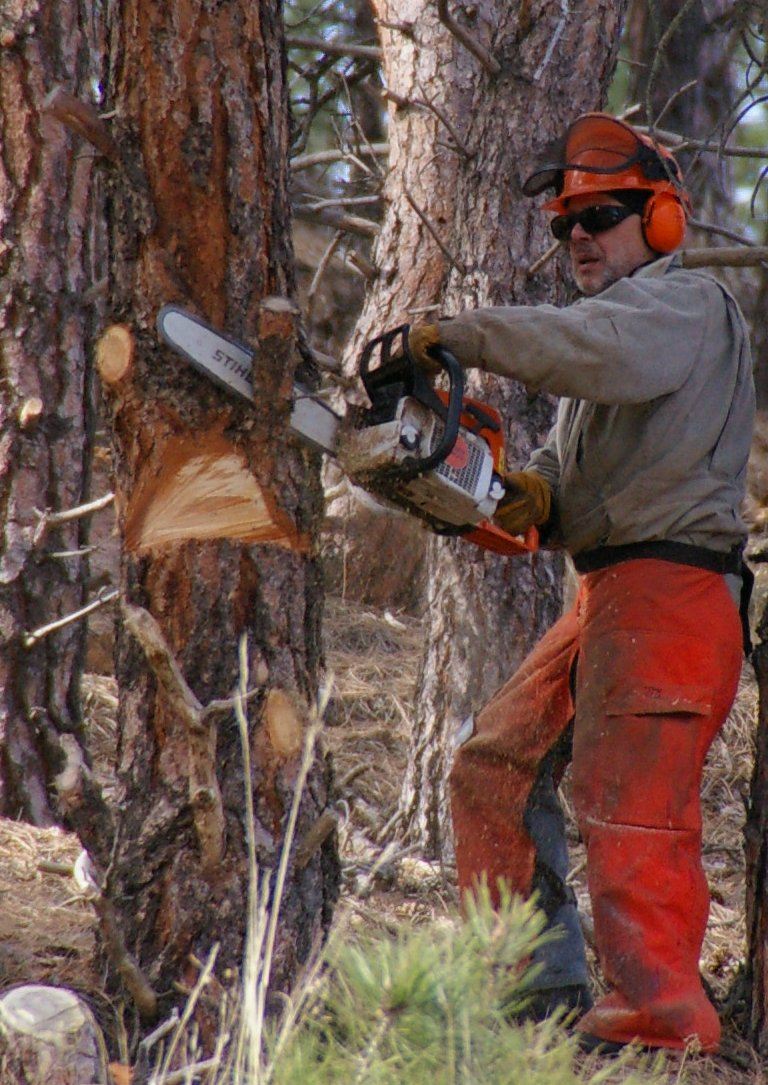 Man using a chainsaw with all recommended safety gear. However the visor works better when it's down protecting the face, not up protecting the helmet.